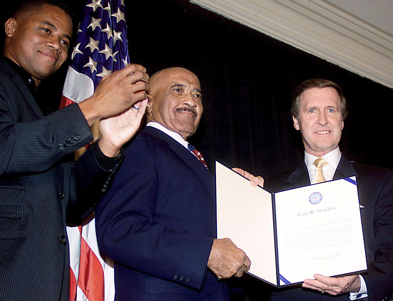 Master Chief Petty Officer Carl Brashear (center), the Navy's first African-American diver, received an Outstanding Public Service Award in October 2000 from actor Cuba Gooding Jr. and then-Defense Secretary William Cohen for 42 years of combined military and federal civilian service. Mr. Gooding portrayed Master Chief Brashear in the 2000 film "Men of Honor."